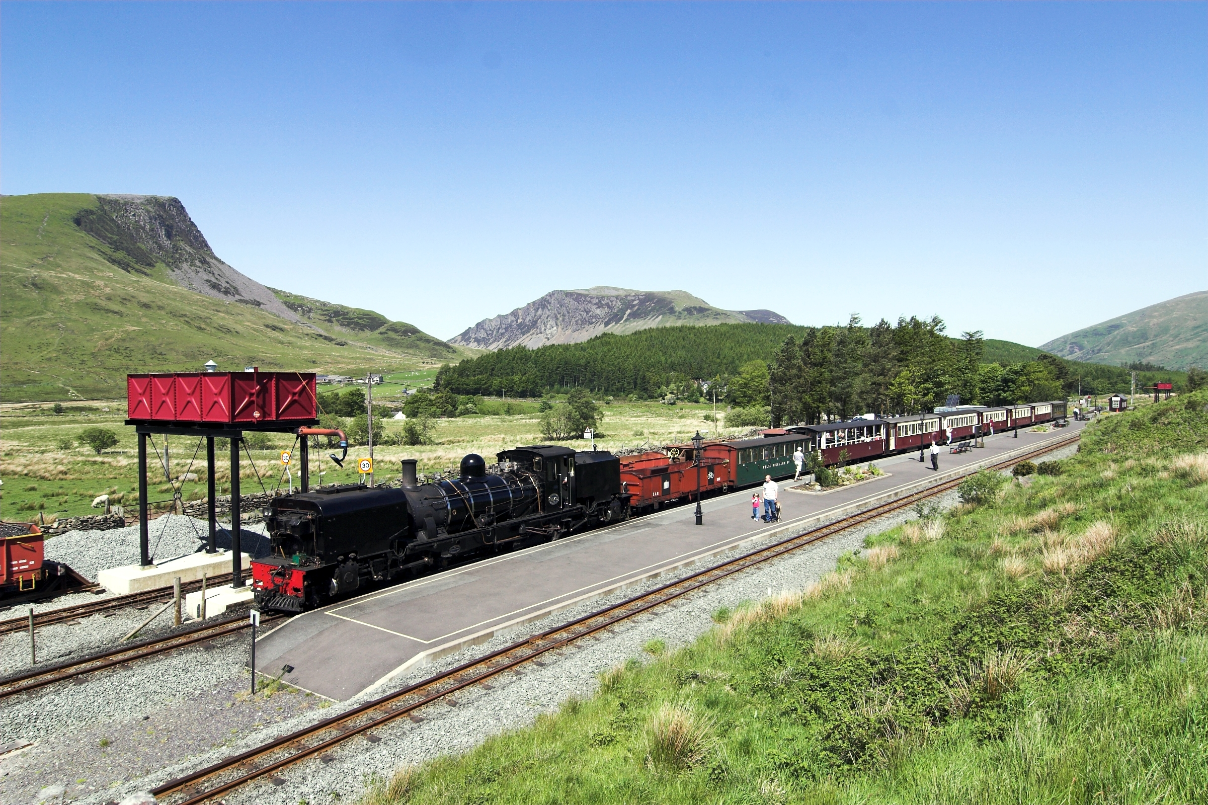 Welsh Highland Railway train with NGG16 No.143 in Rhyd Ddu station.